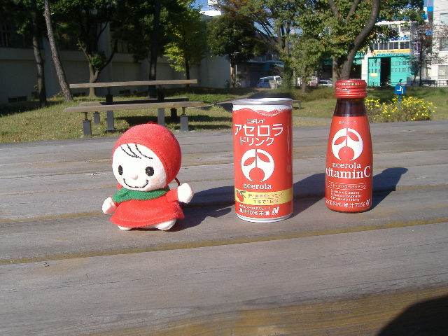 Nichirei Acerola Drink